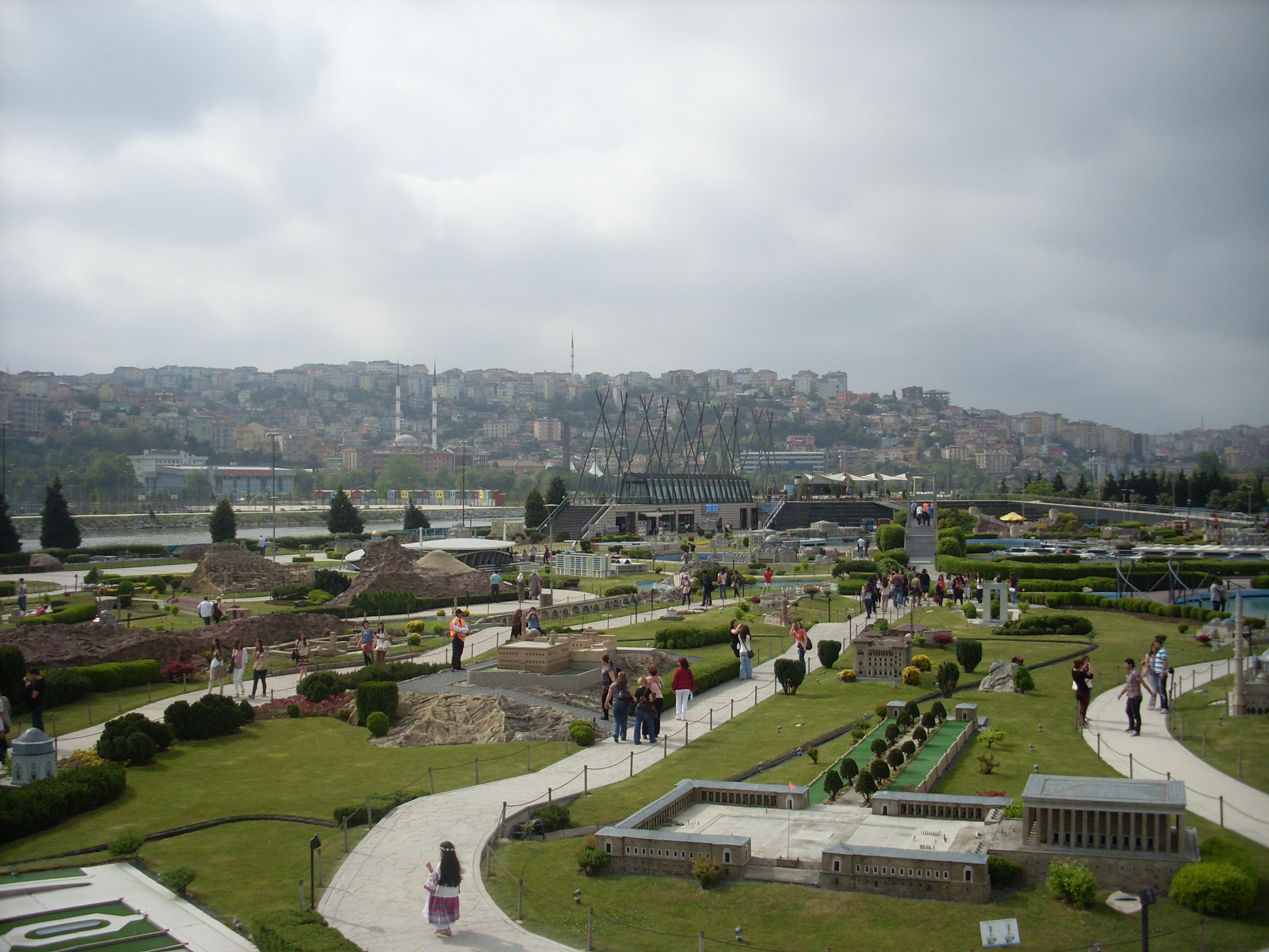 Miniatürk genel görünüm